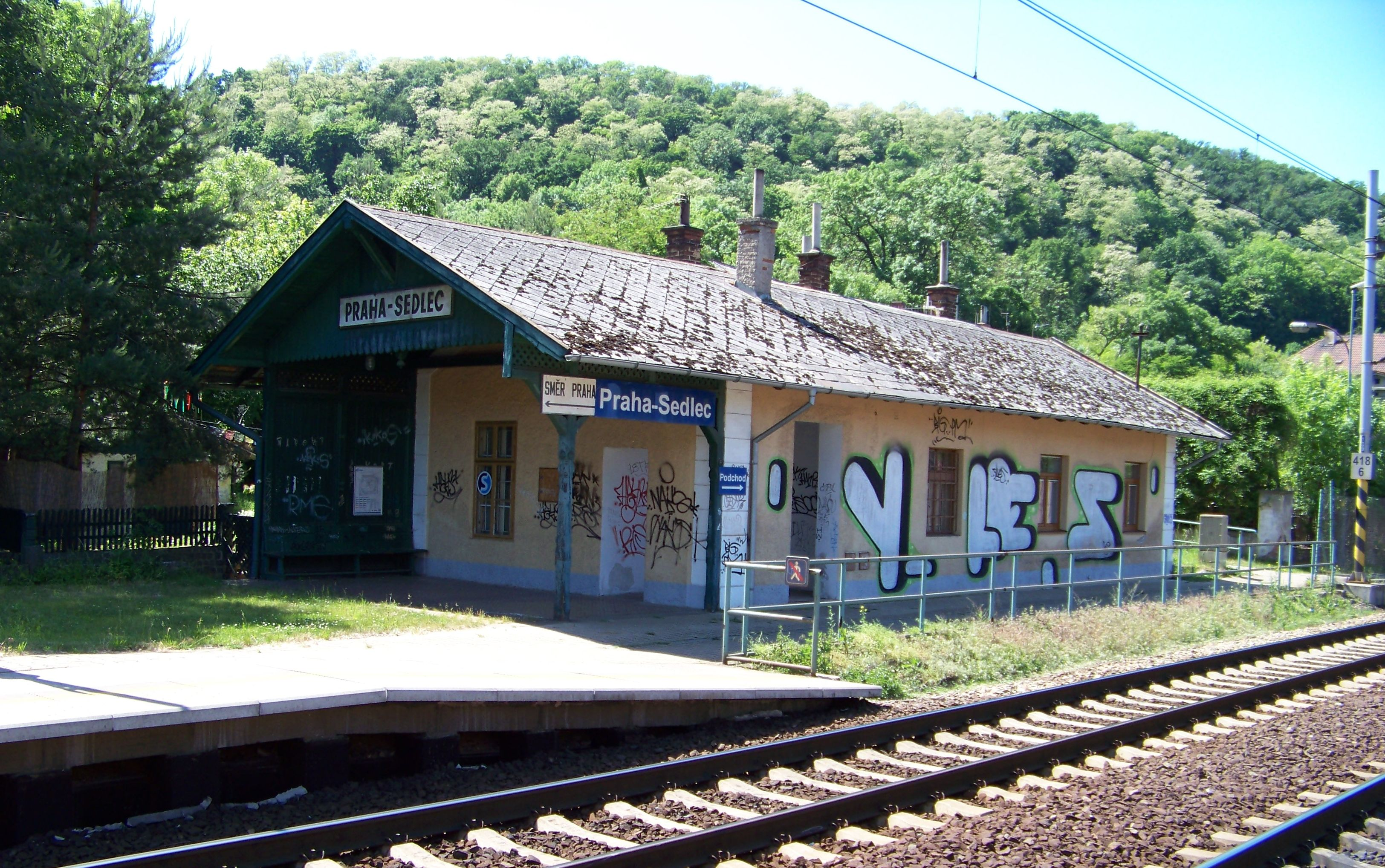 Prague-Sedlec, the Czech Republic. "Praha-Sedlec" railway stop.